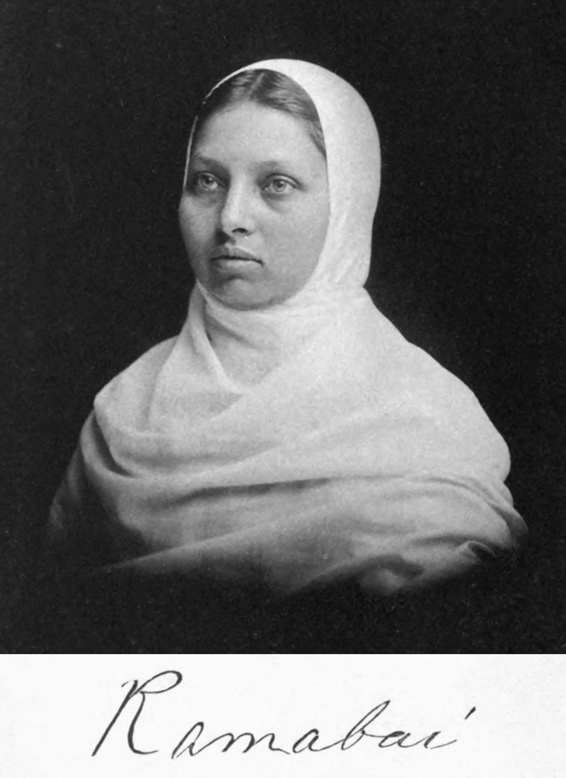 Portrait of Pandita Ramabai Sarasvati 1858-1922, frontispiece from book